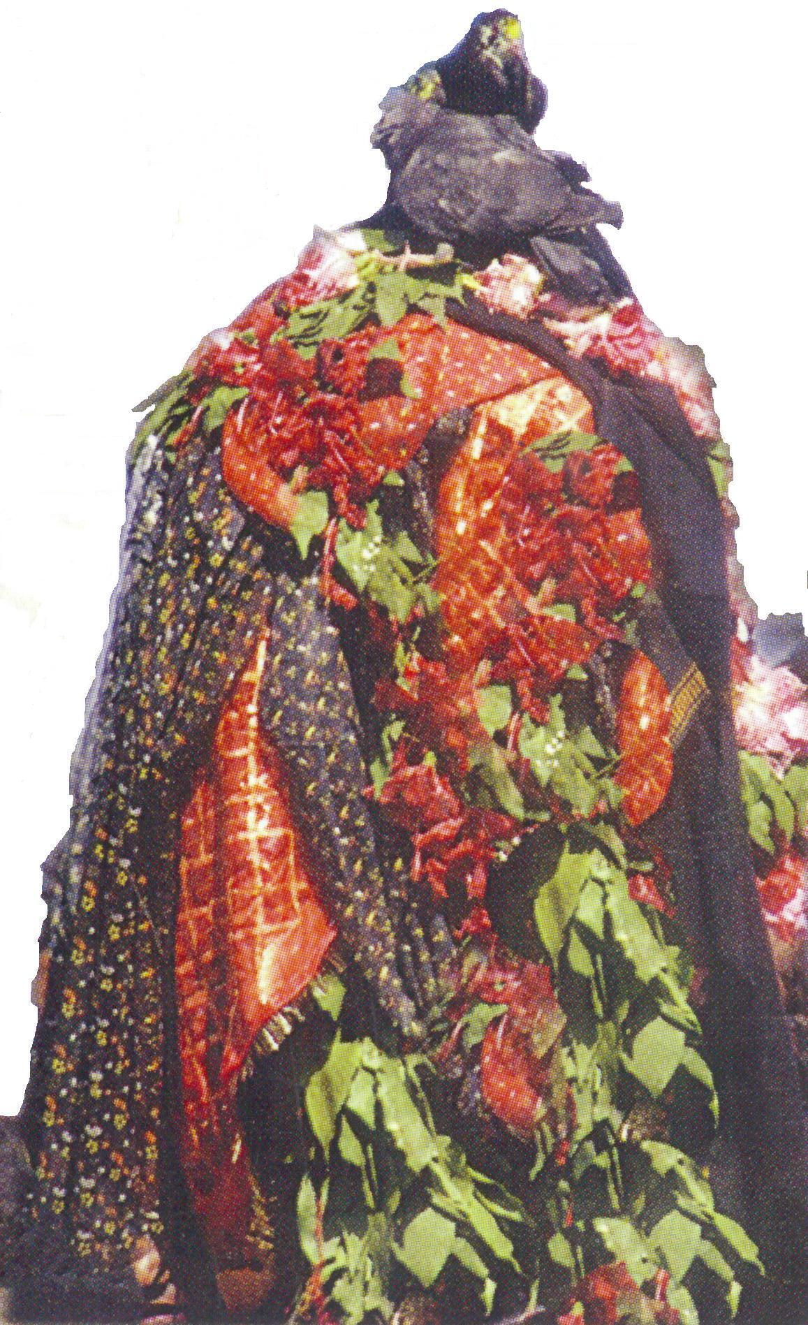 chhatar jatra. (Note: File was called "chhatar.JPG" renamed to current per some research, based on information in this file: Please correct if you think this is incorrect. -- Deadstar (msg) 12:52, 11 August 2014 (UTC))